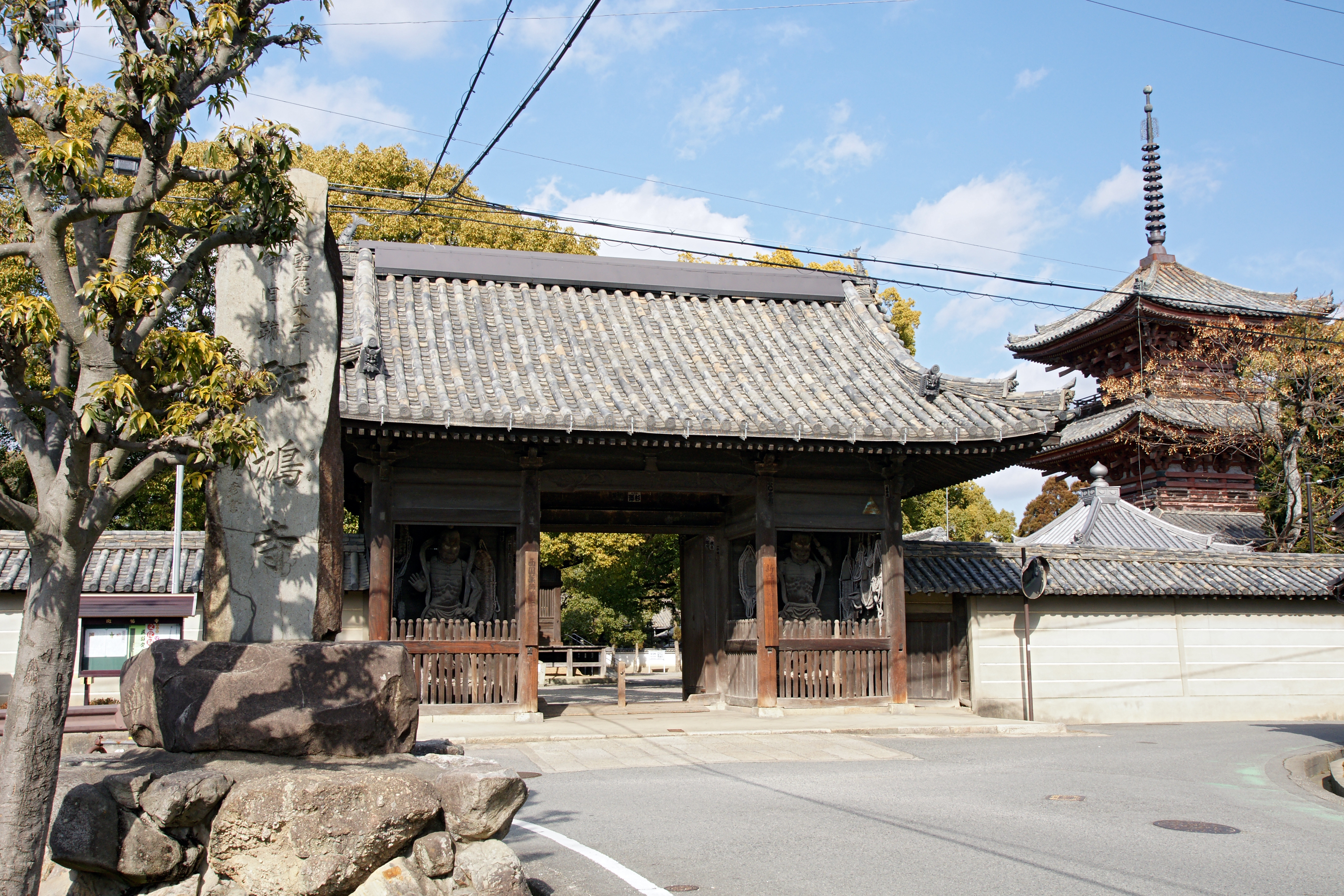 Ikaruga-dera (Hankyu-ji) in Taishi, Hyogo prefecture, Japan.